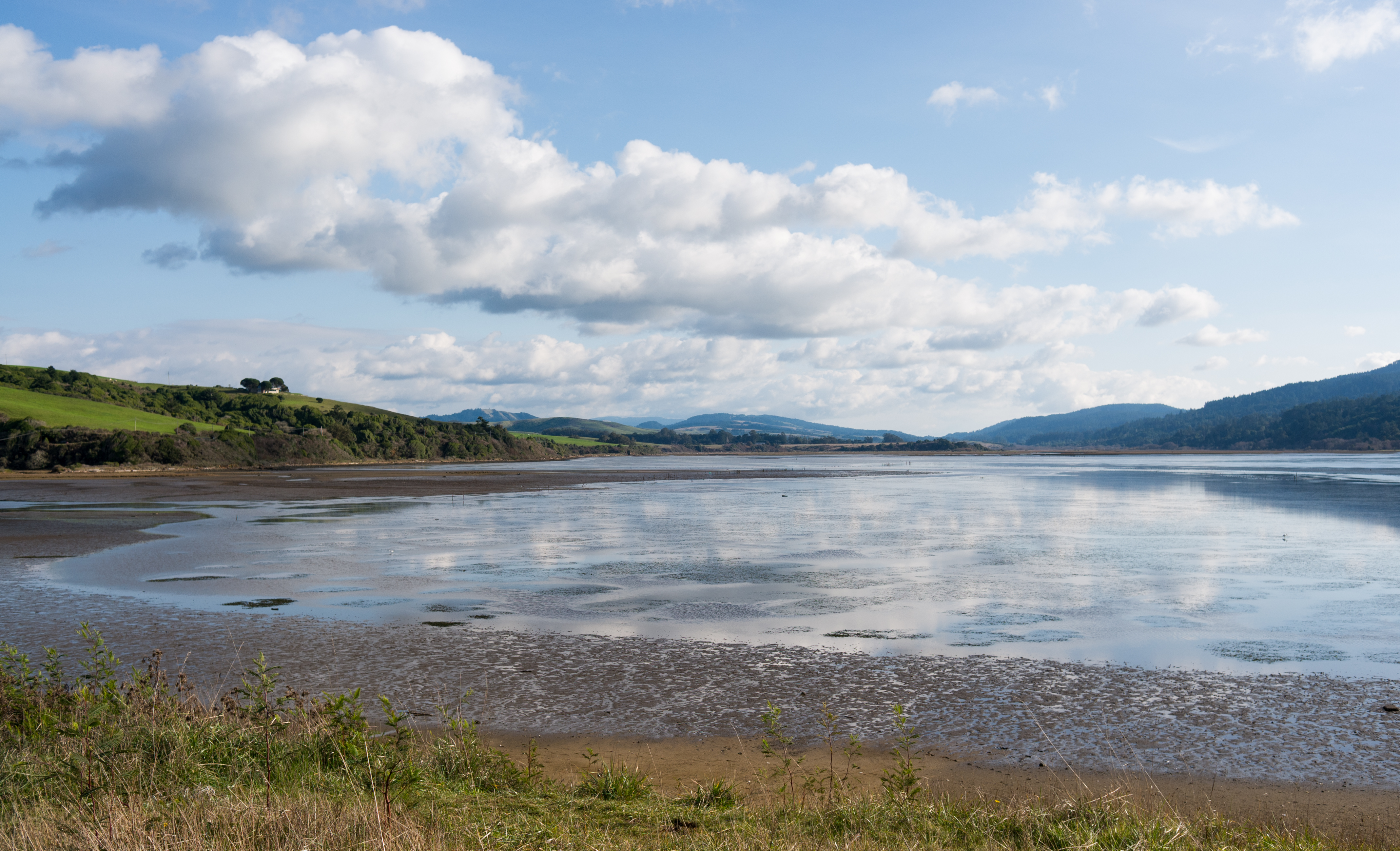 Tomales Bay, as seen from Tomales Bay State Park near Millerton (looking South), January 2013.